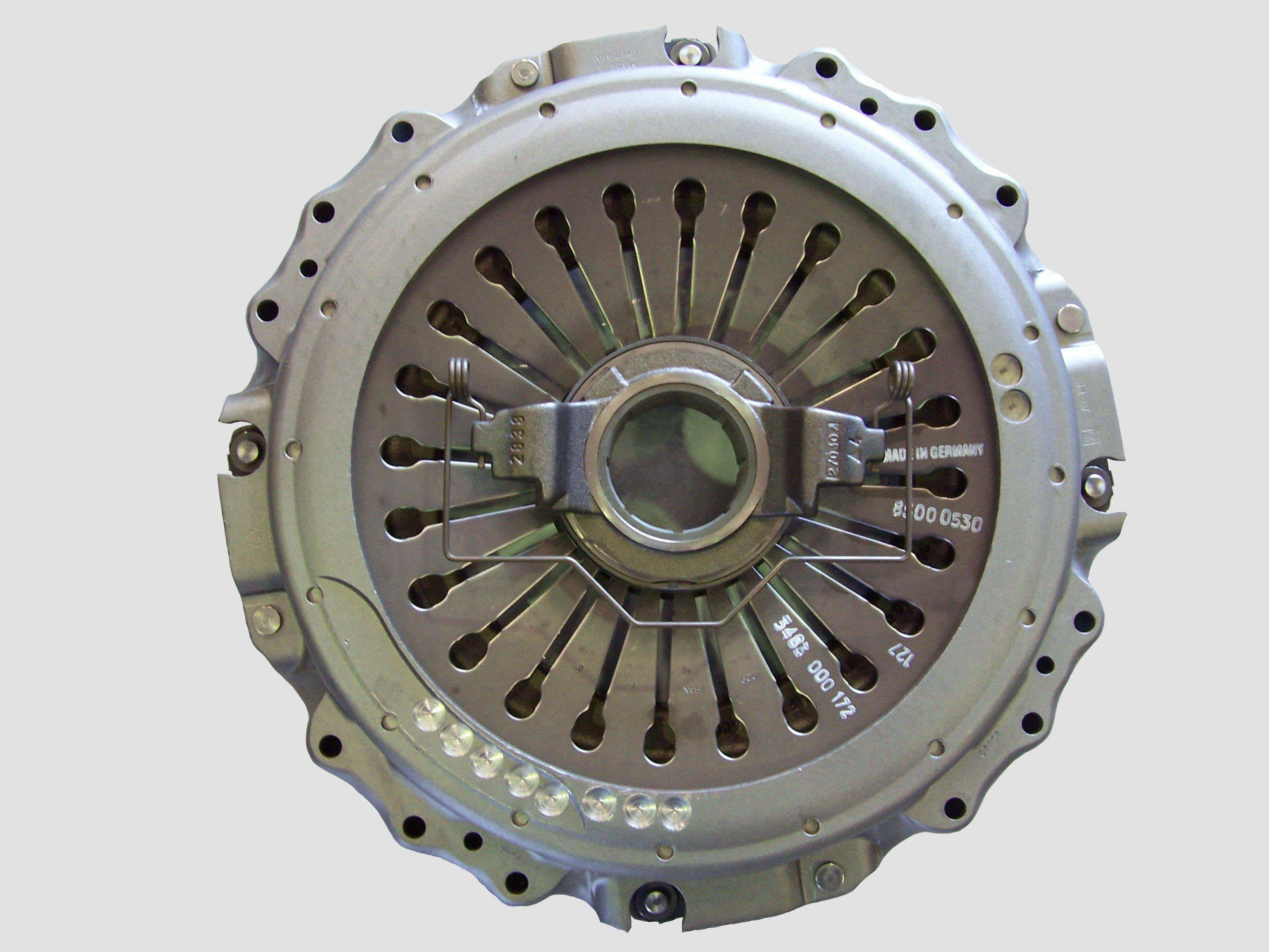 pull type clutch pressure plate